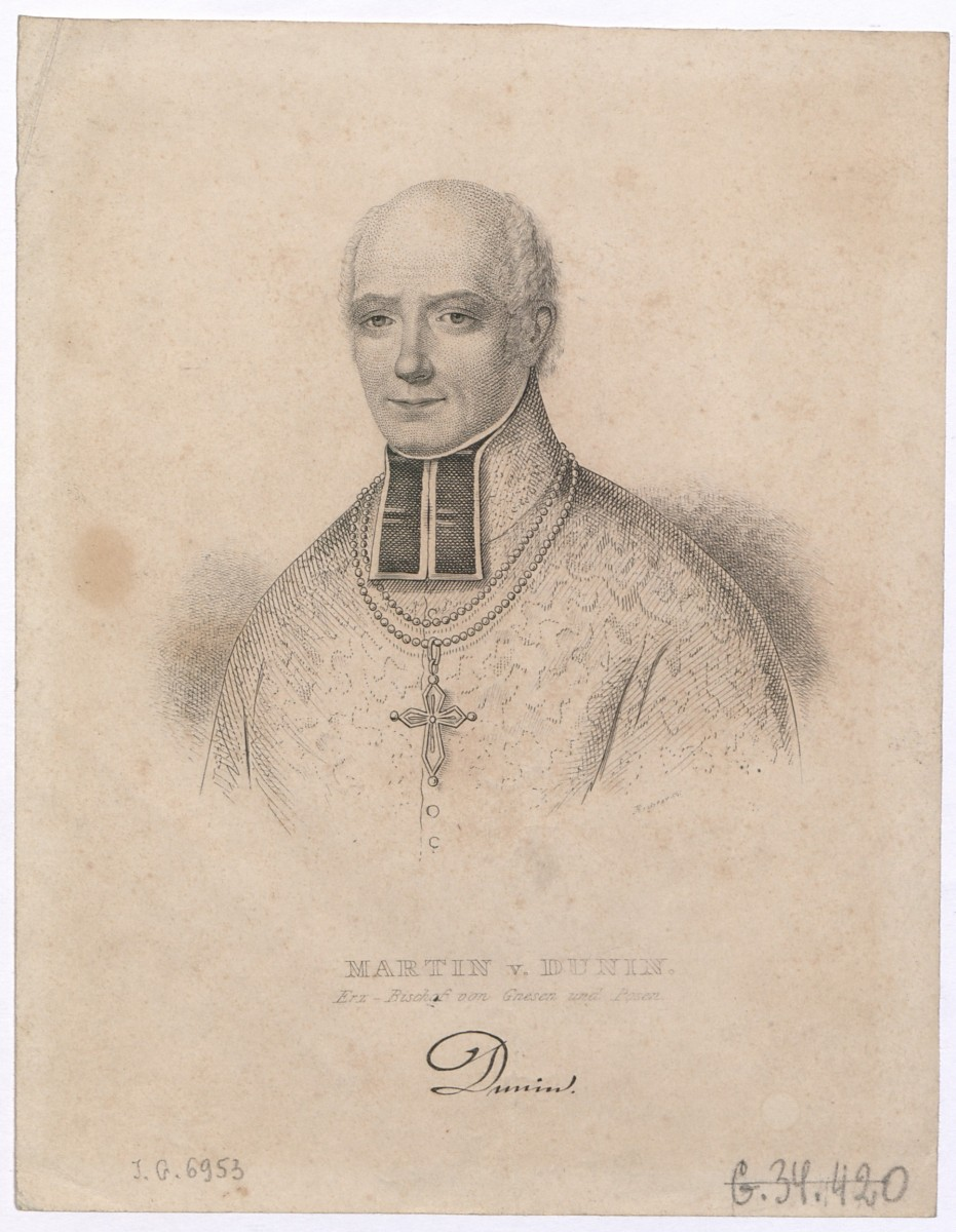 Portrait of Marcin Dunin (1774-1842), archbishop of Gniezno and Poznań